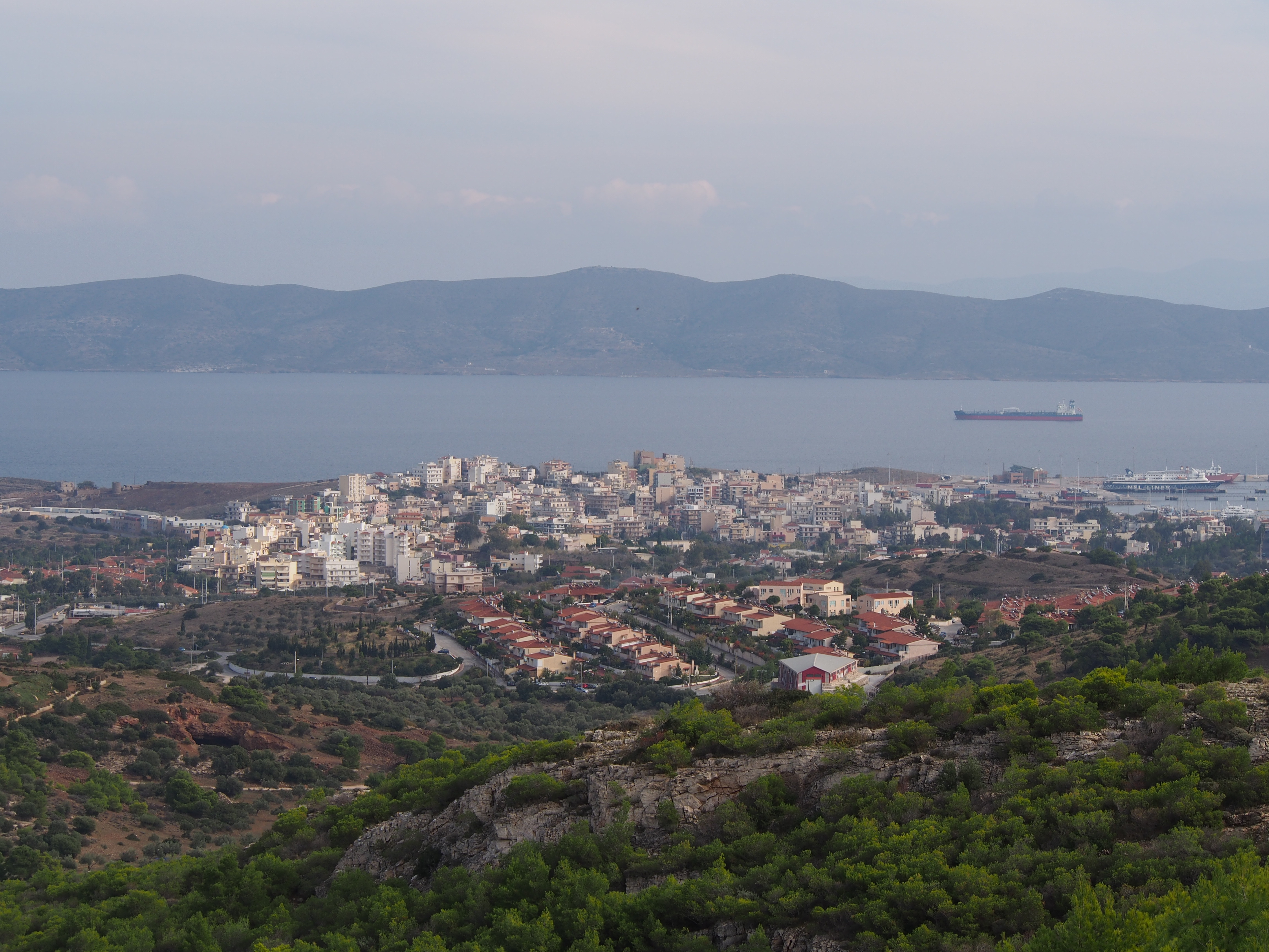 View of Lavrio town from west. Across the strait is Macronisos.